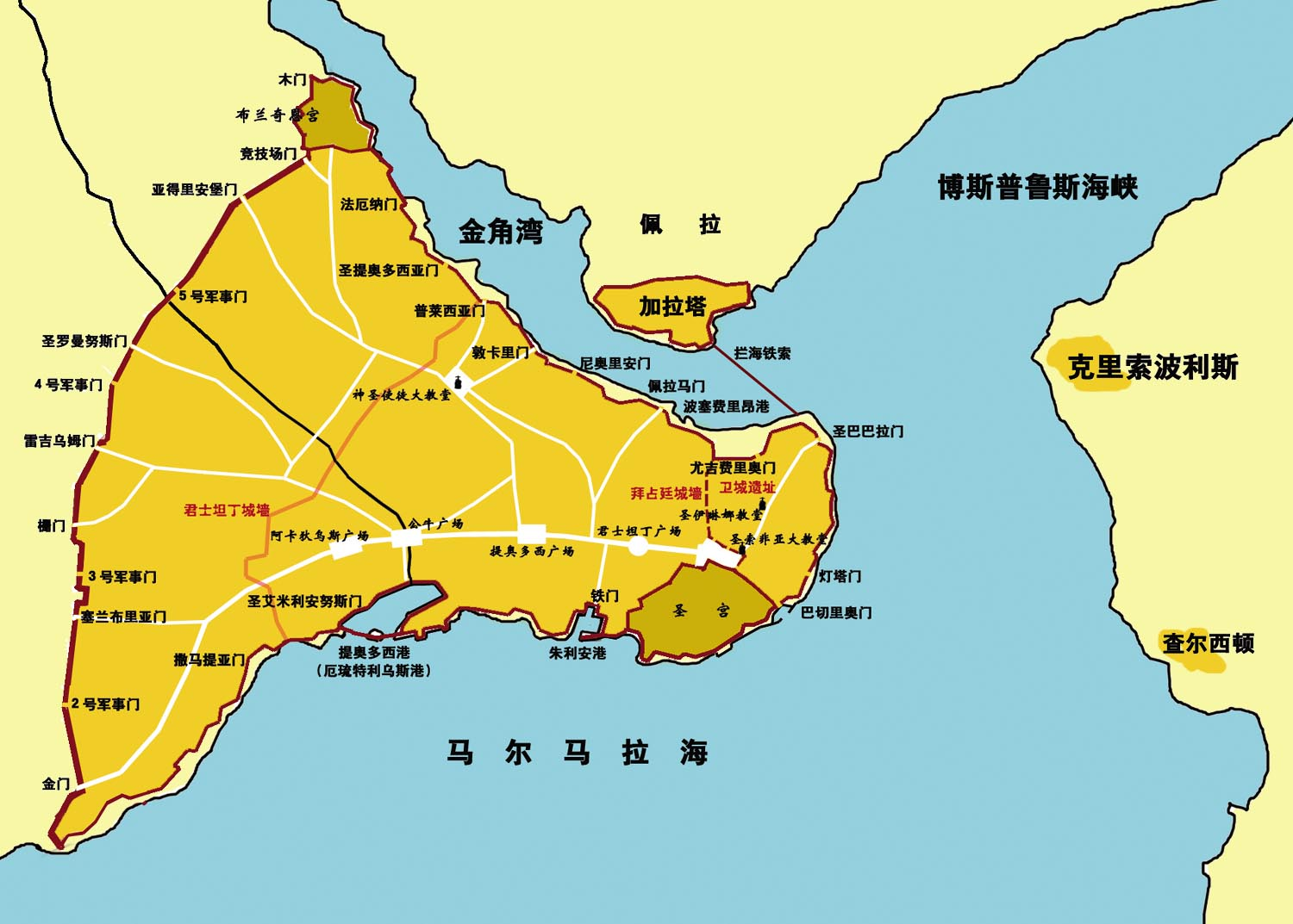 Map of Byzantine Constantinople.